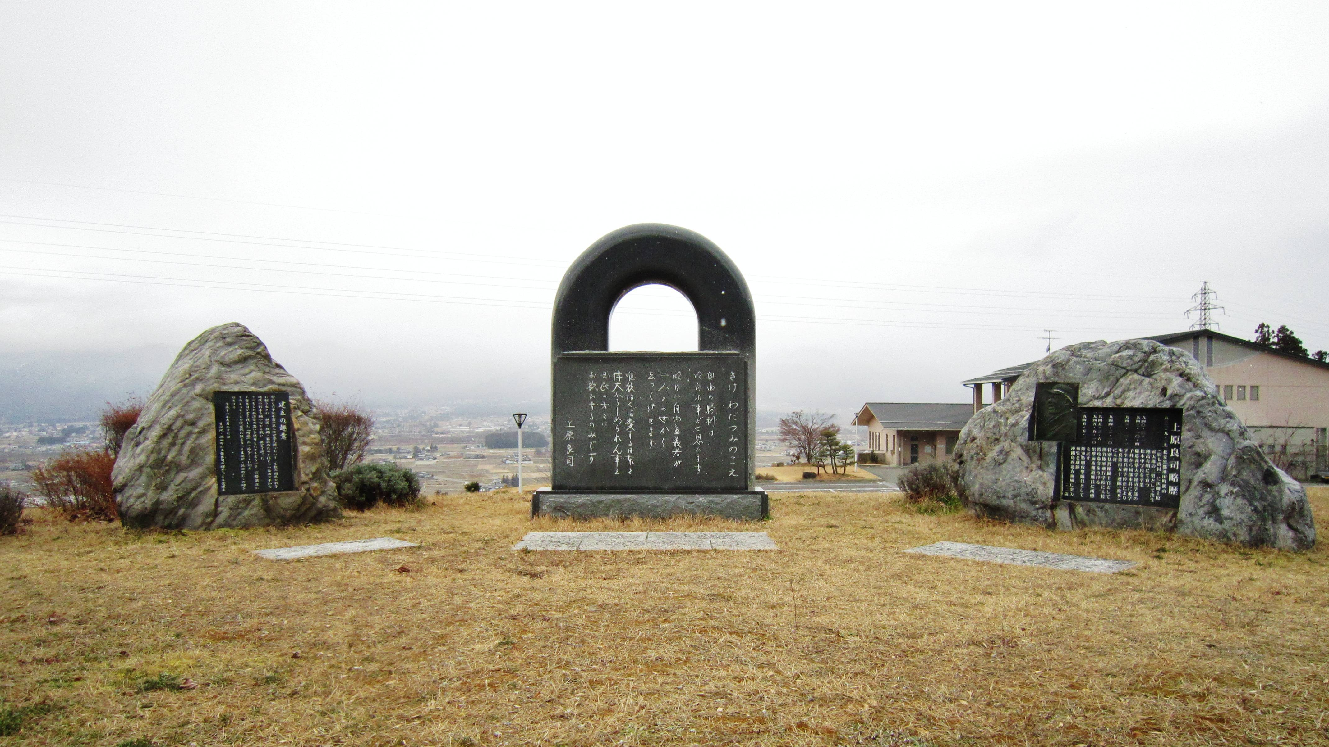 Ryōji Uehara monument (Ikeda, Nagano).